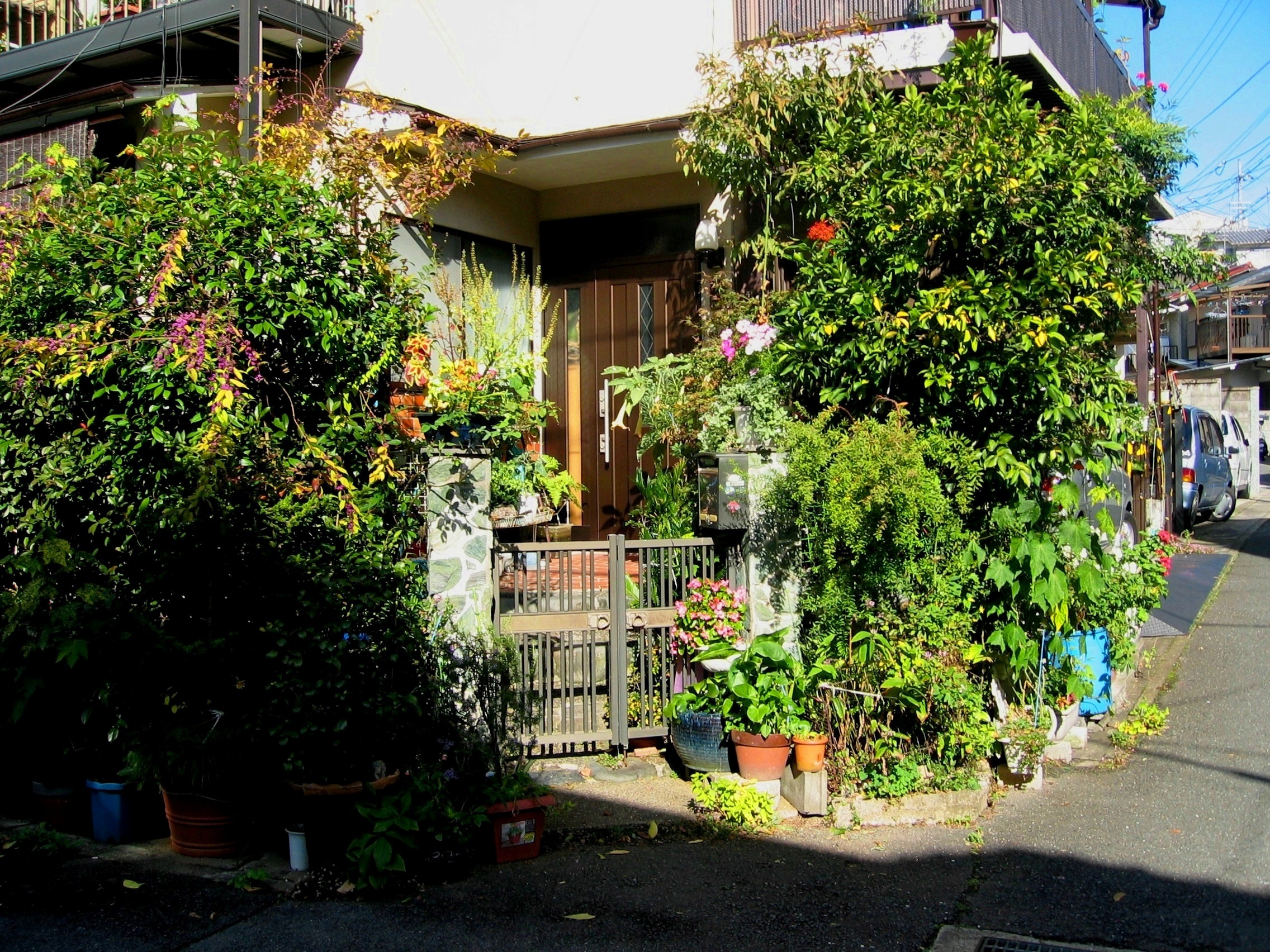 Typical private home entrance in Kyoto, Japan